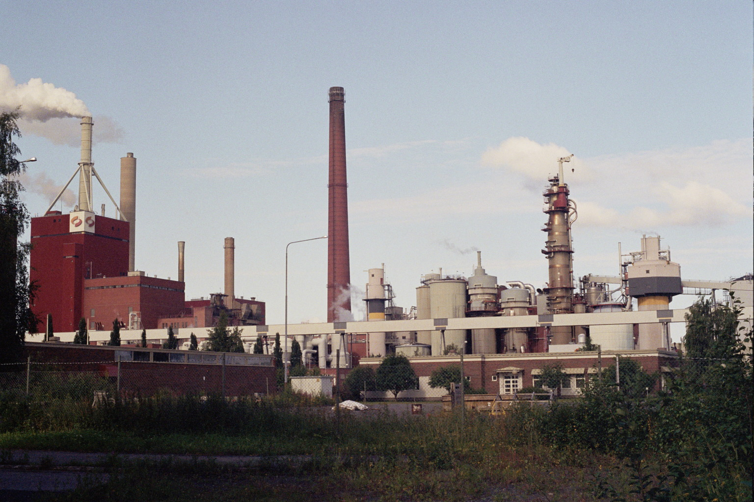 The pulp and paper mill of Stora Enso in the Nuottasaari district of Oulu, Finland.